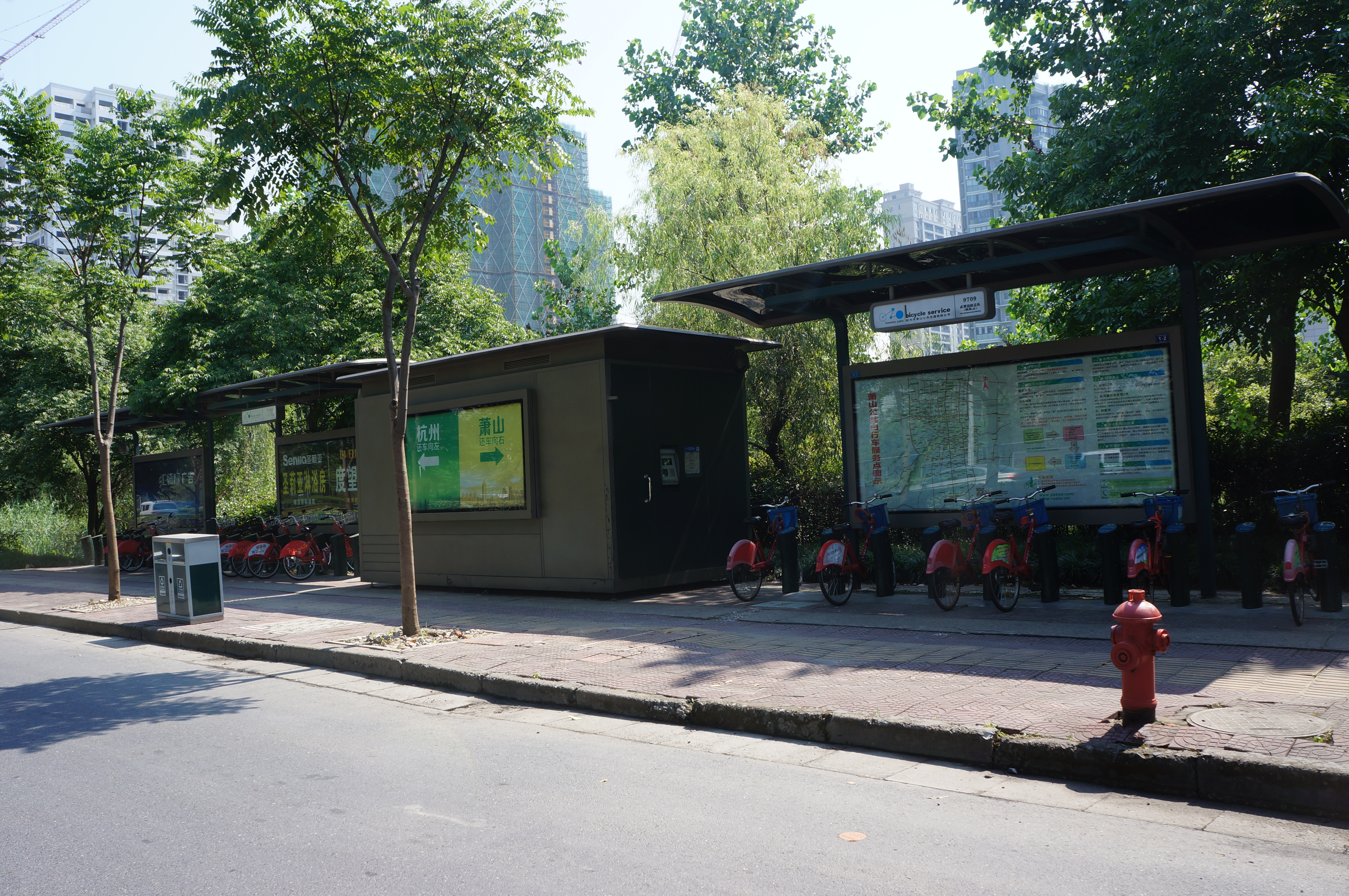 201608 Hangzhou and Xiaoshan Public Bicycle rack point at Fengqing Avenue Xiaoshan side